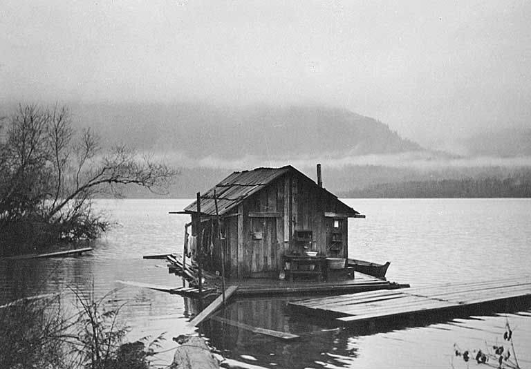 Called a Home Photographer: Koike, Kyo Subjects (LCTGM): Shantyboats--Washington (State) Dwellings--Washington (State) Bodies of water--Washington (State) Digital Collection: Modern Photographers Collection Item Number: MPH424 Persistent URL: Visit Special Collections page for information on ordering a copy. University of Washington Libraries. Digital Collections